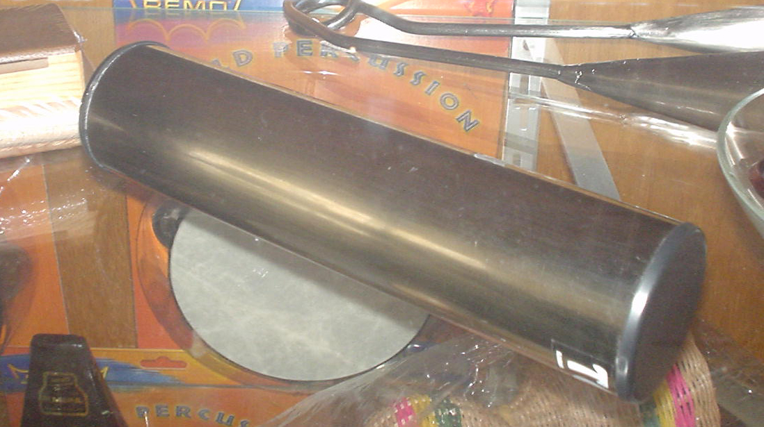 Shaker